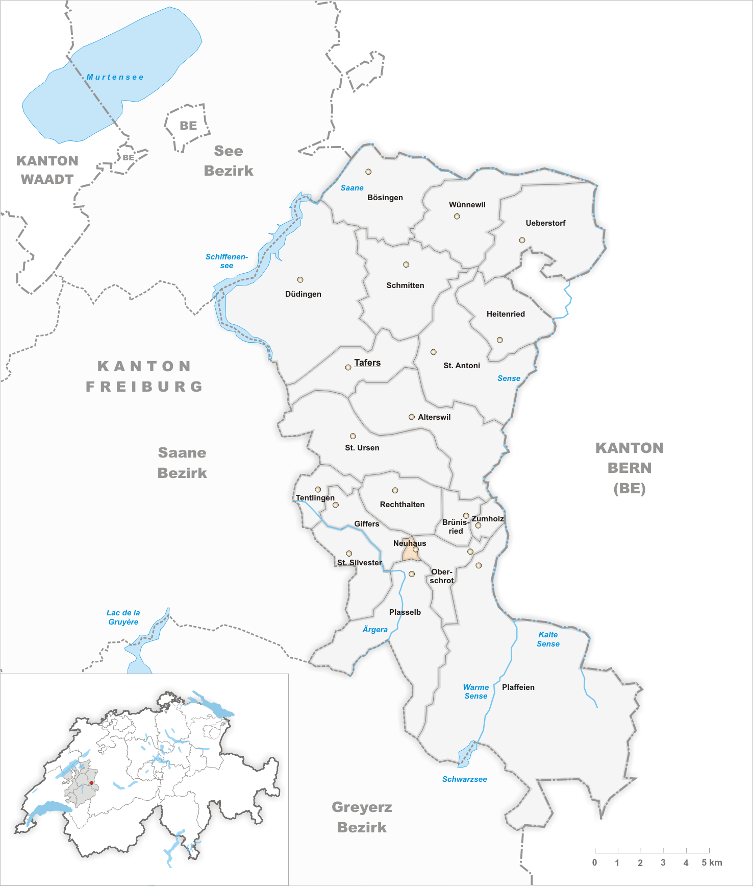 Municipality Neuhaus Artist: Tschubby